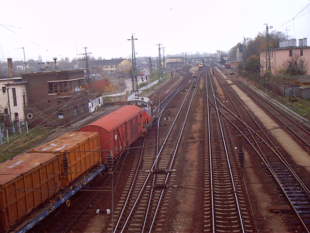 Freight train in Komárom.